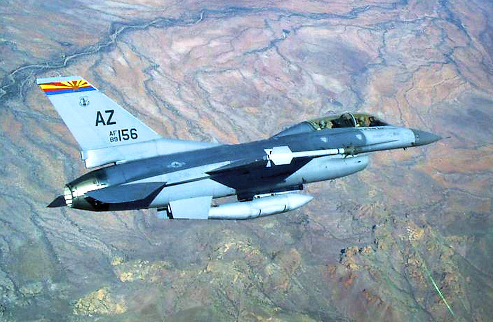 F-16D block 42 #89-2156 taken over Arivaca, Arizona on May 3rd, 2003. [USAF photo]